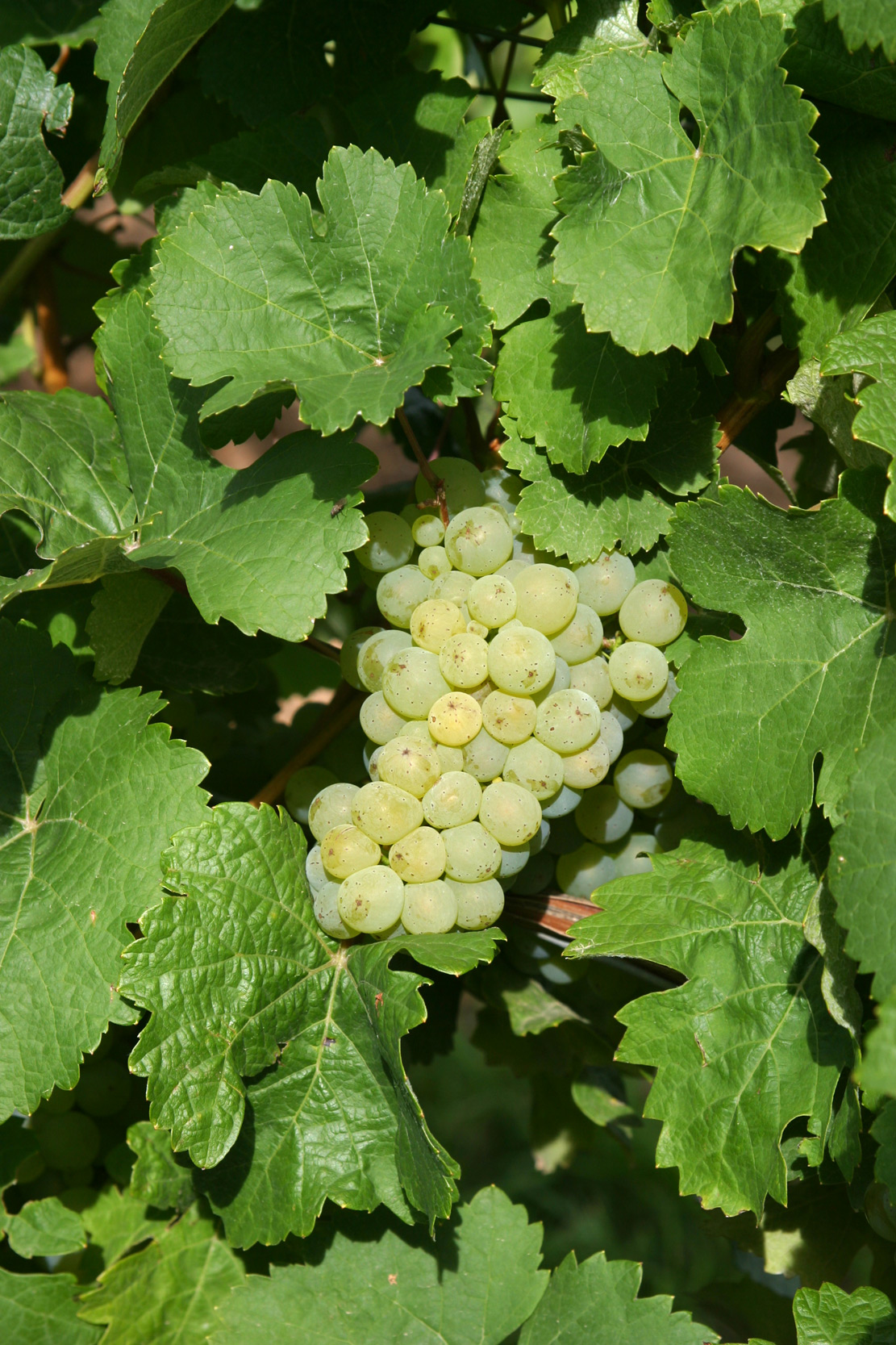 Leafs and grapes of the grape variety Osteiner.